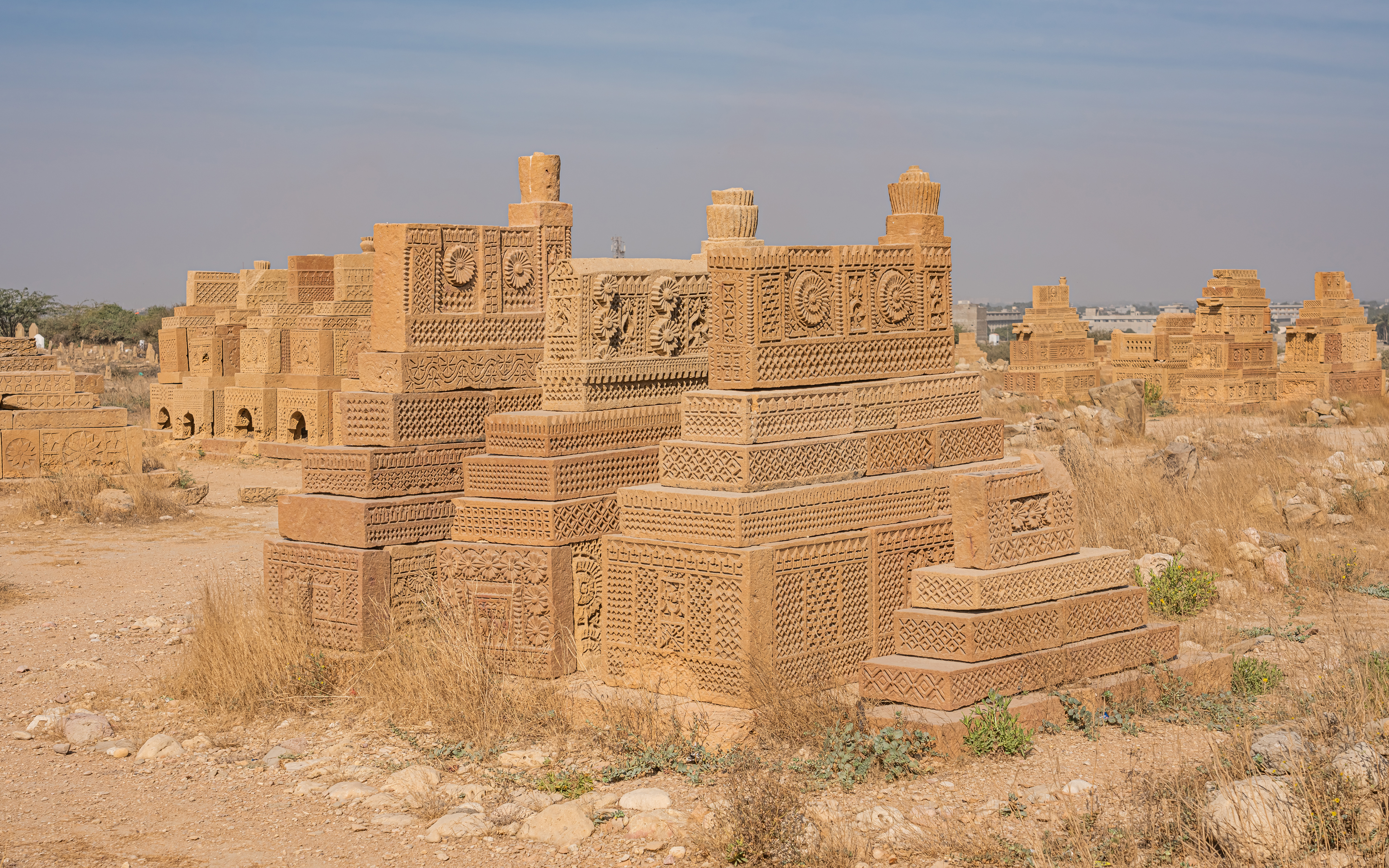 Chaukhandi Necropolis near Karachi, Pakistan